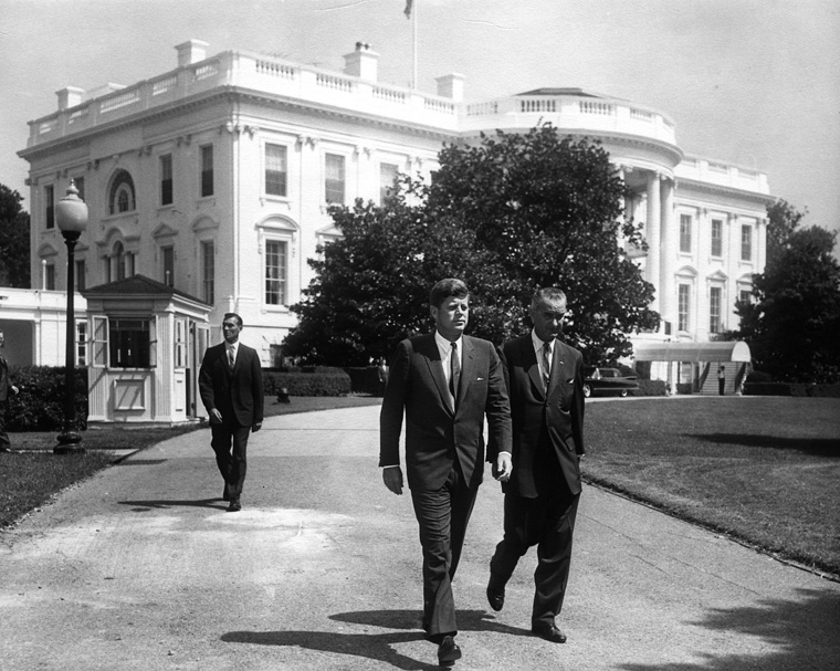 President Kennedy and Vice President Johnson prior to ceremony for the Workmens' Compensation Commemorative Stamp, Washington, D. C., White House, South Lawn.